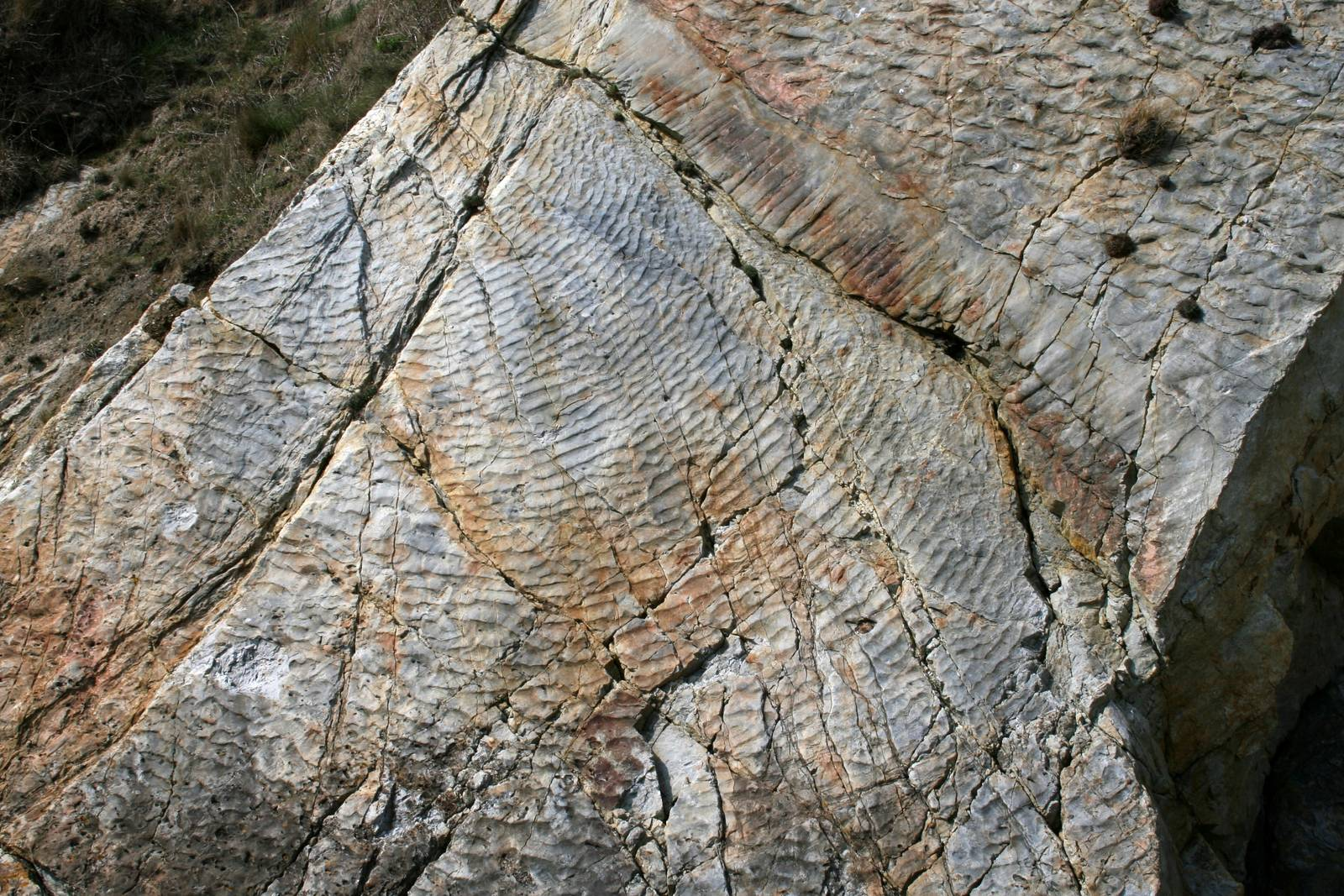 Ripple marks on the tilted top surface of a layer of quartzite of the Armorican Sandstone Formation of early Ordovician age (about 480 million years old), near Camaret-sur-Mer in the Crozon peninsula of Brittany, France.